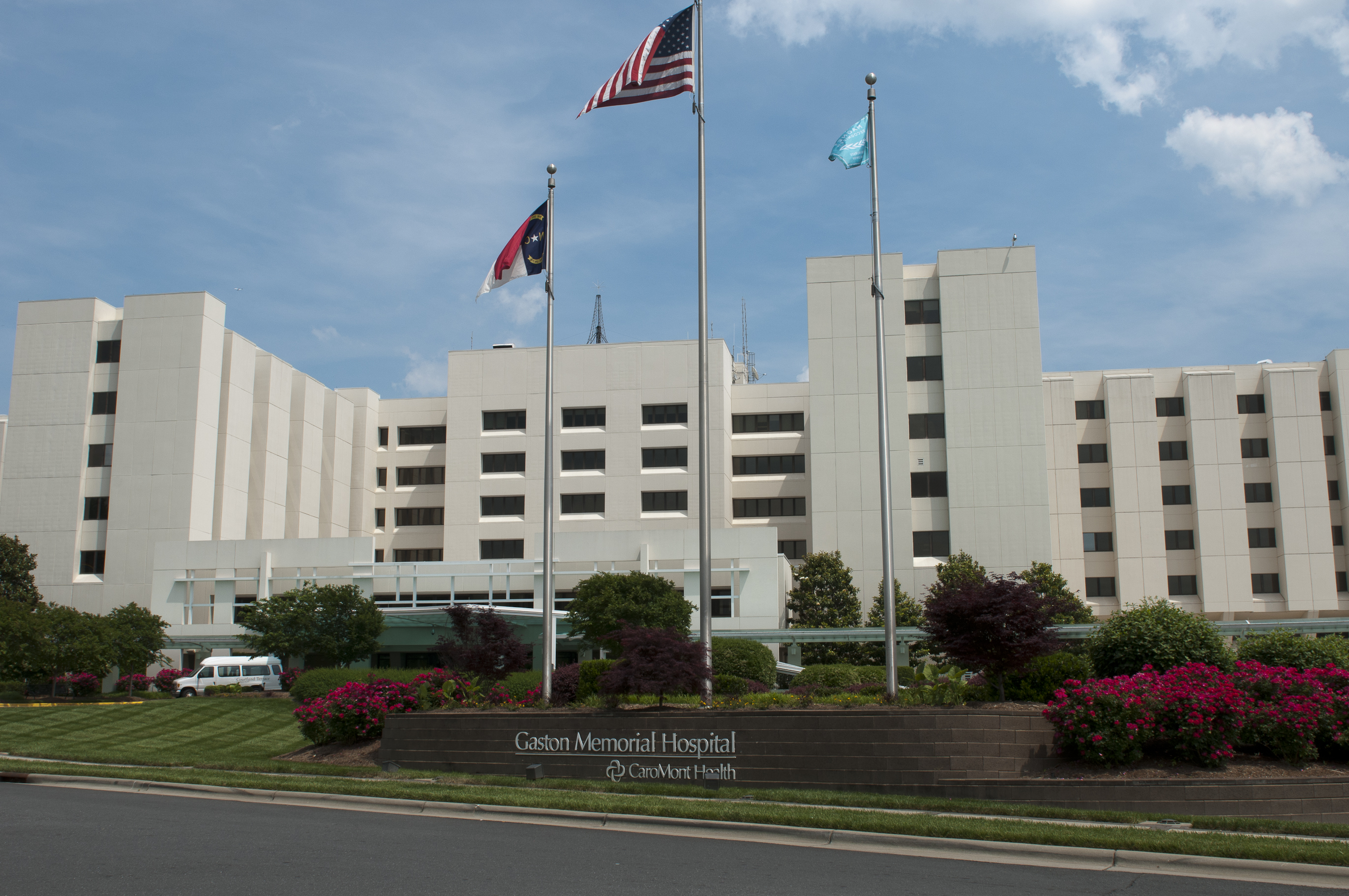 CaroMont Health Gaston Memorial Hospital